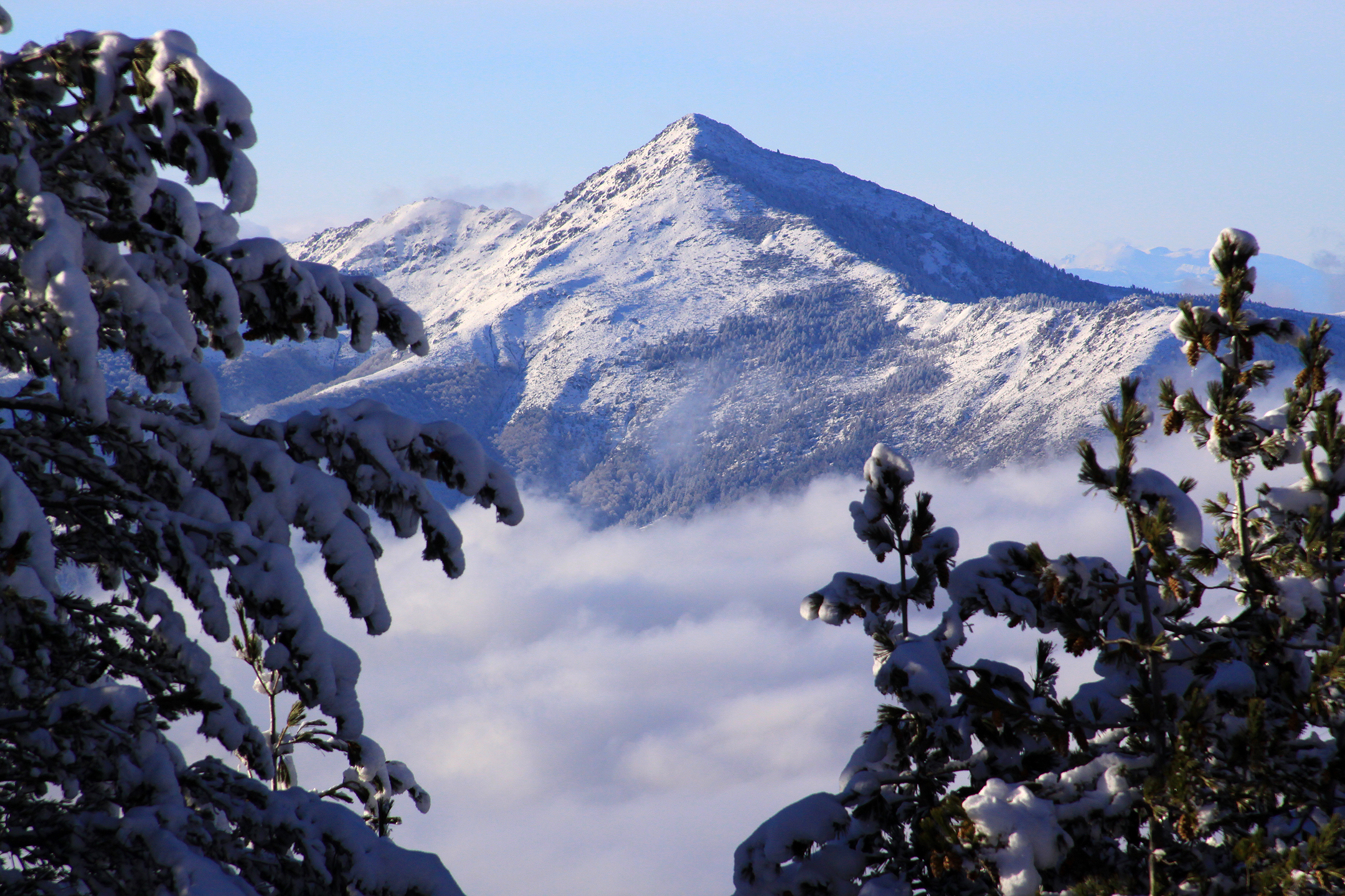 Ostërvice/Pashallore mountain 2092 m. alt. seen from Brezovica ski center